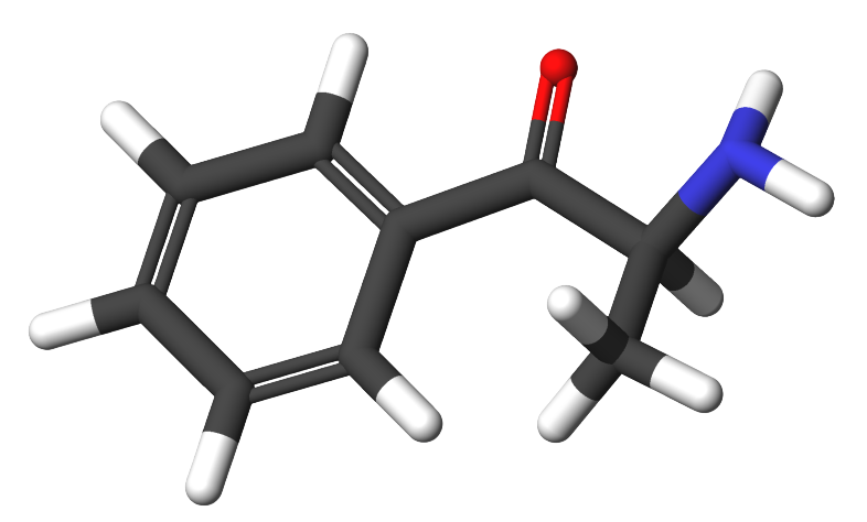 Cathenone